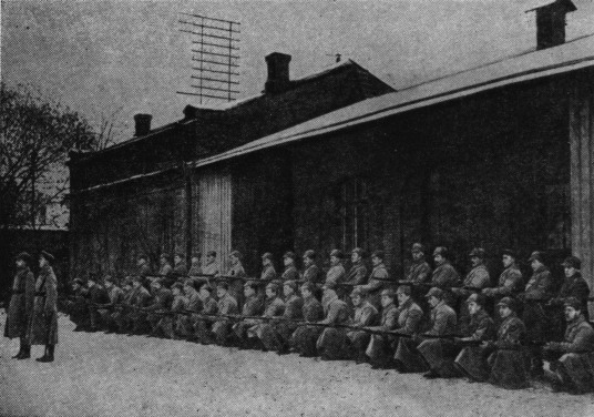 Unit of armed Red Finnish communist railway workers. Took part in the defence of Red Petrograd agains Yudenich. 1919.